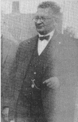 Part of a familyportrait (ca. 1945)